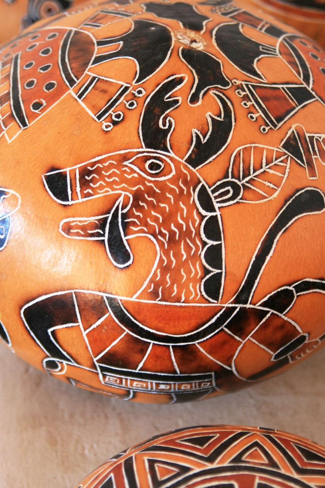 Deer-headed figure on Moche pottery. Tumbas Reales de Sipán Museum, Chiclayo, Perú.